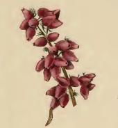 Stainton’s Natural History of the Tineina (1855–1873): Neofaculta ericetella a sprig of Erica with a larva protruding from a flower